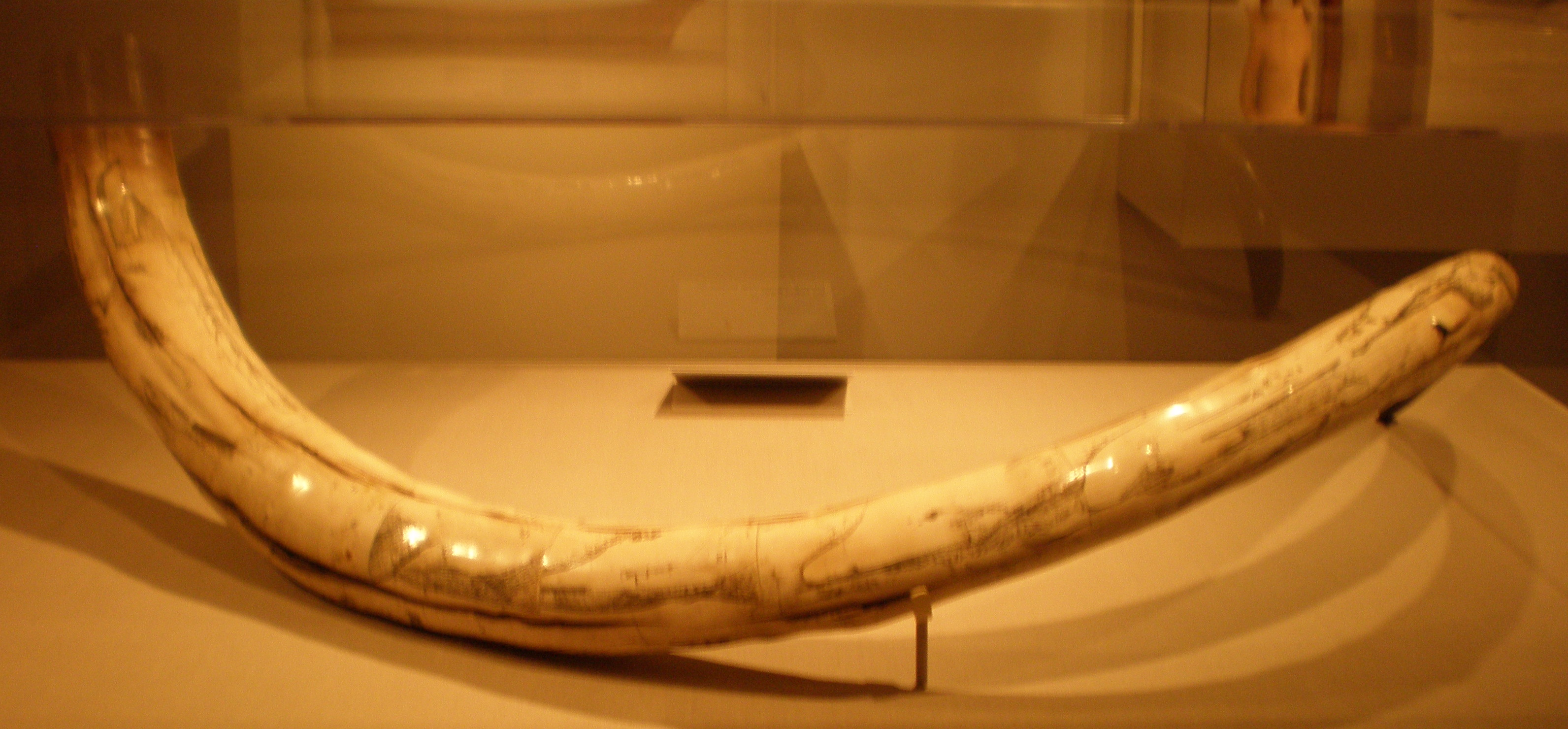 A mammoth tusk with carvings of scenes on the Yukon River, 19th century, Yukon, Alaska. On display at the De Young Museum in San Francisco. 34430